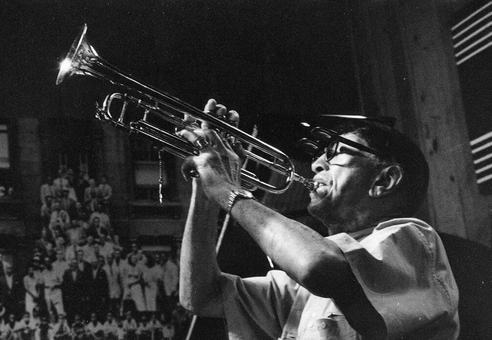 Doc Cheatham, photographed during one of his legendary jazz brunches, (Sweet Basil's in Greenwich Village, New York City) in front of Milt Hinton's famous photo